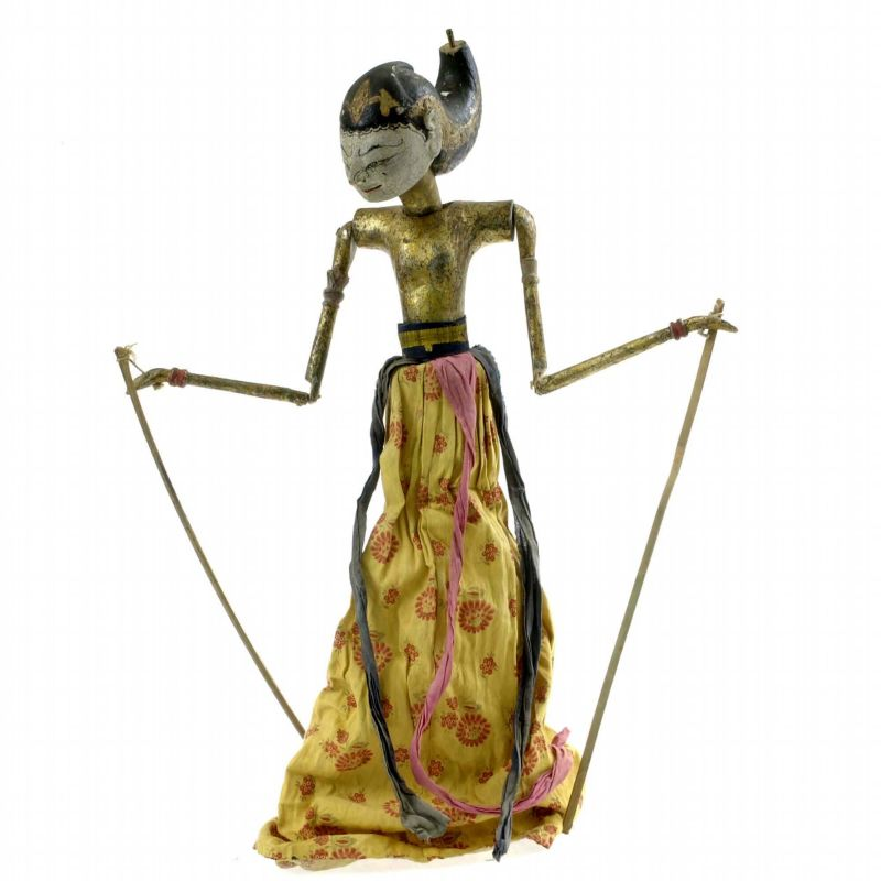 Wooden shadow puppet